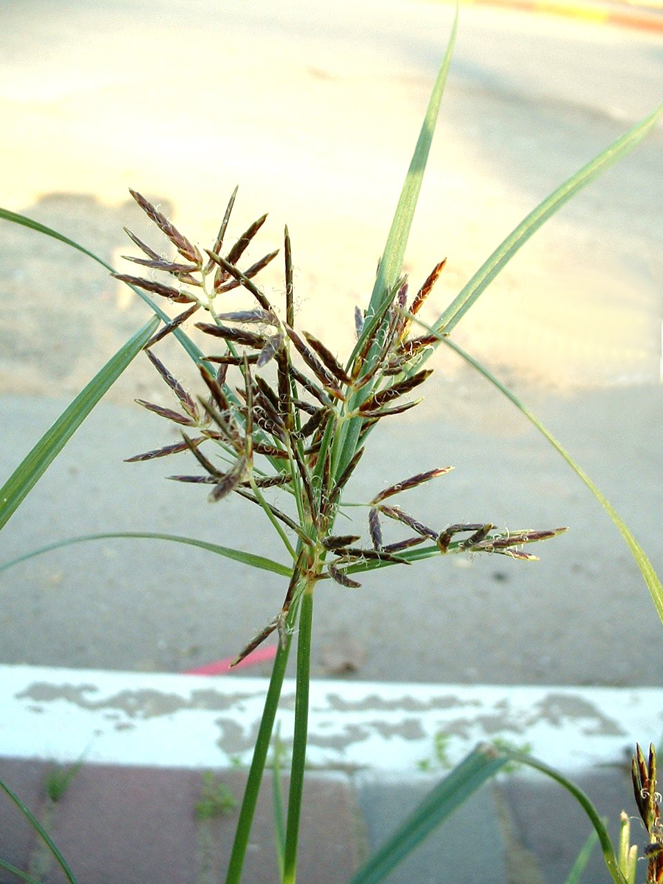 Nutgrass (Cyperus rotundus) flower head. Photographed by myself on Dec. 9, 2005, with Fuji FinePix 2650 camera.